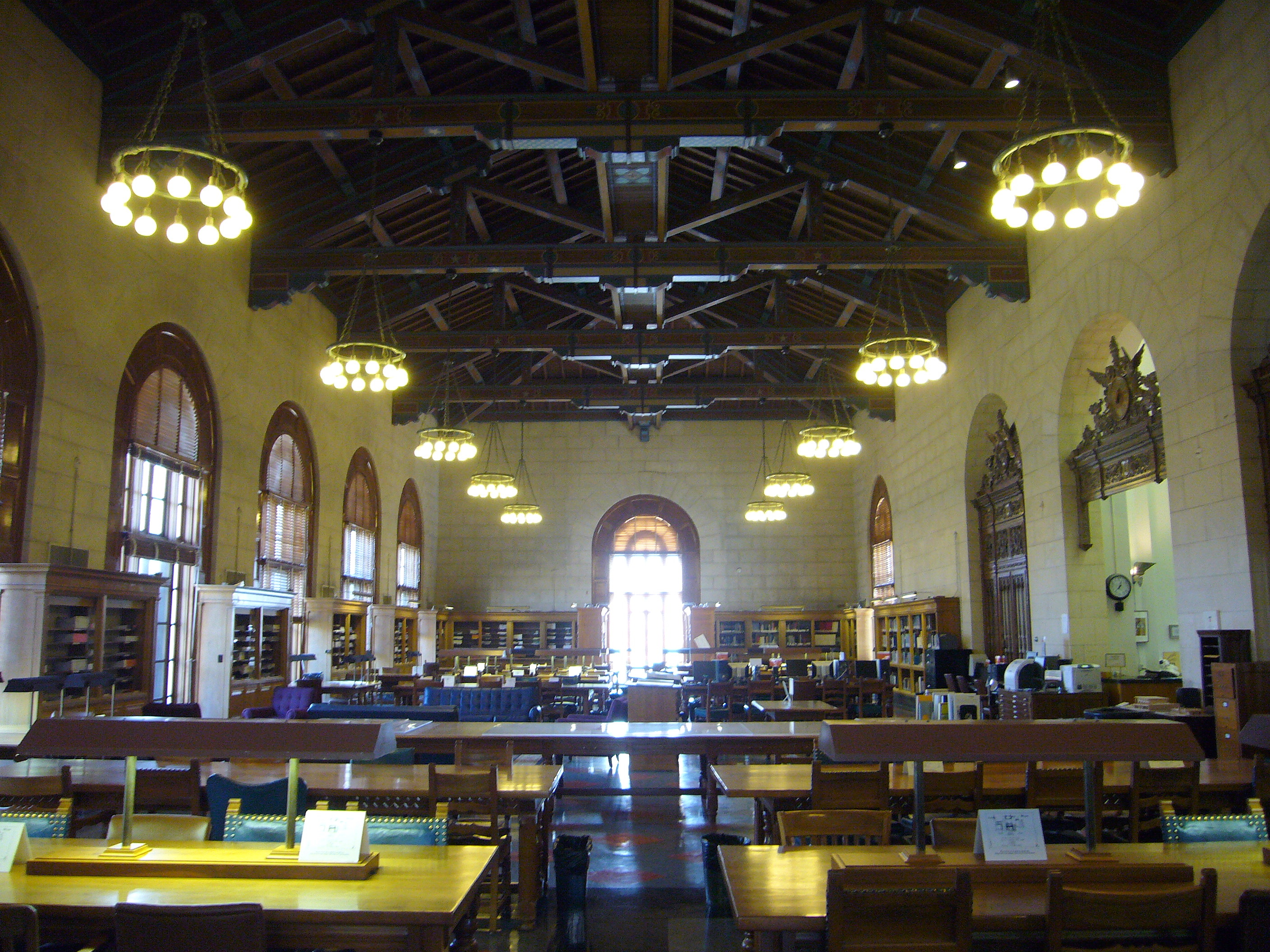 Photo of the architecture library at UT Austin, inside Battle Hall on the main campus.